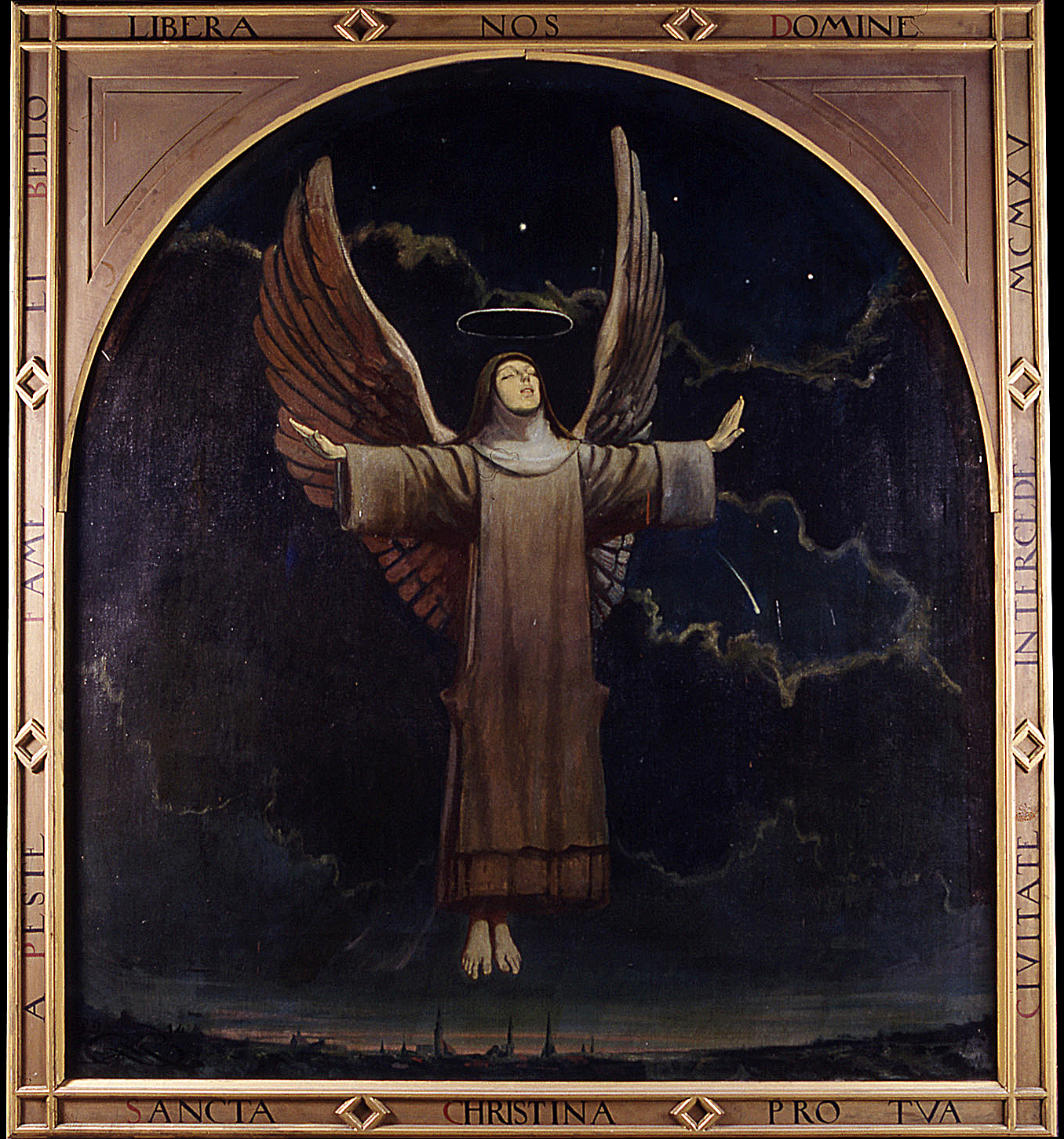 Saint Christina the Astonishing (Mirabilis) church photo with caption reading "In pestilence, famine, and war, deliver us Lord - Saint Christina for your community intercede" - recognizing her widespread sainthood by the laity as allowed in the Catholic Church.